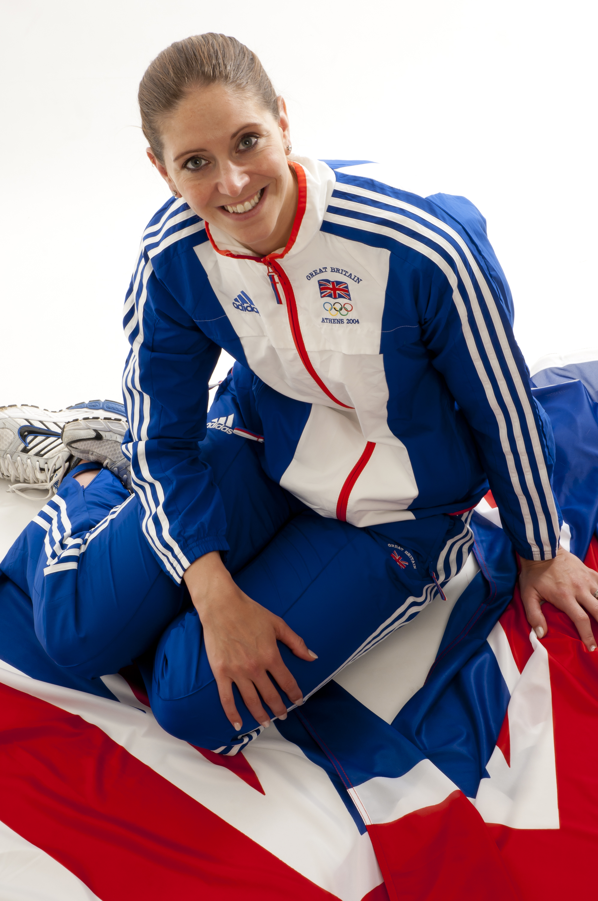 Katy Sexton in her tracksuit on a Union Flag prior to the Athens Olympics 2004